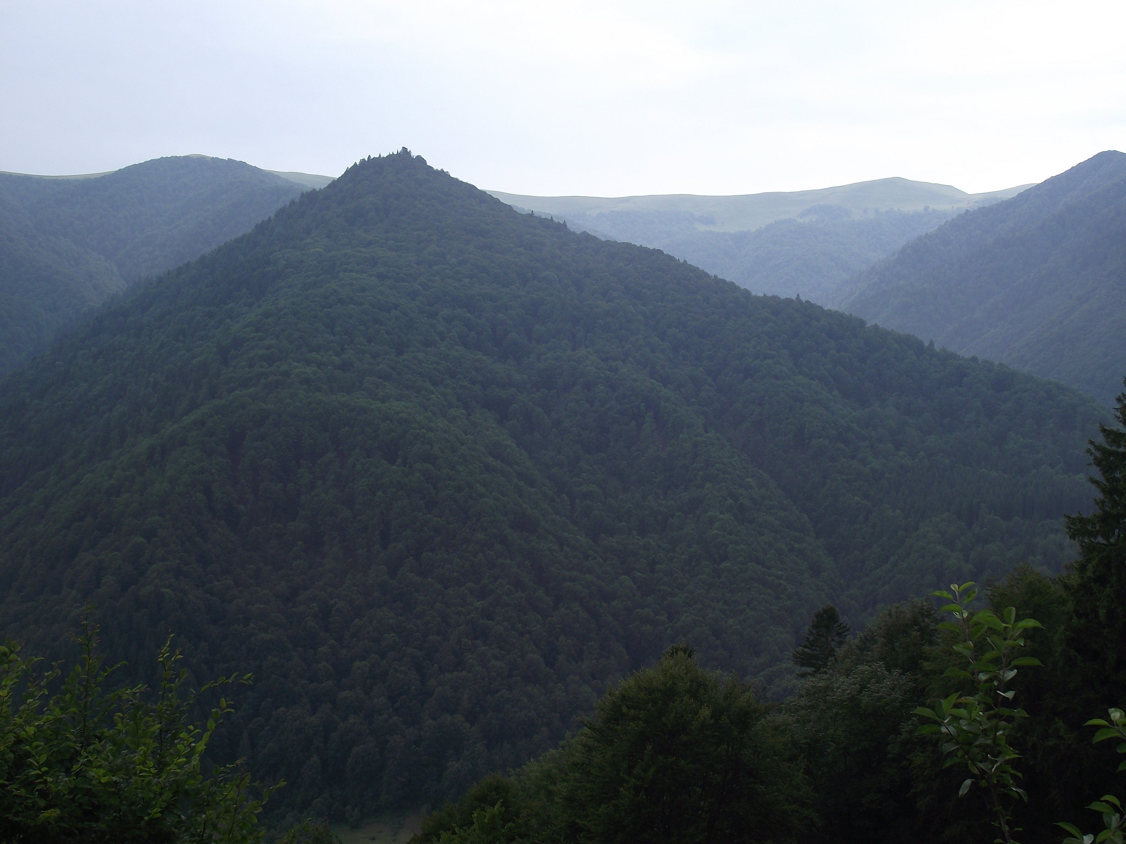 Hrebet Krasna (Хребет Красна), mountain range in Ukrainian Carpathians. South-eastern slopes near the Ust'-Čorna village